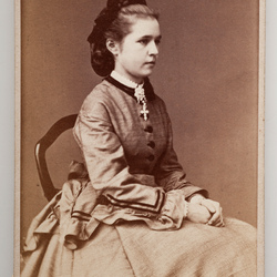 Visiting card studio portrait of the Norwegian actress and photographer Marie Magdalene Bull (1827–1907)